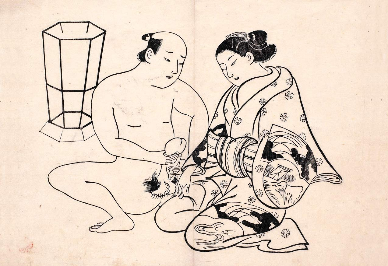 By the Light of a Hexagonal Lantern, woodblock print by Torii Kiyonobu I, early 1700s, Honolulu Museum of Art